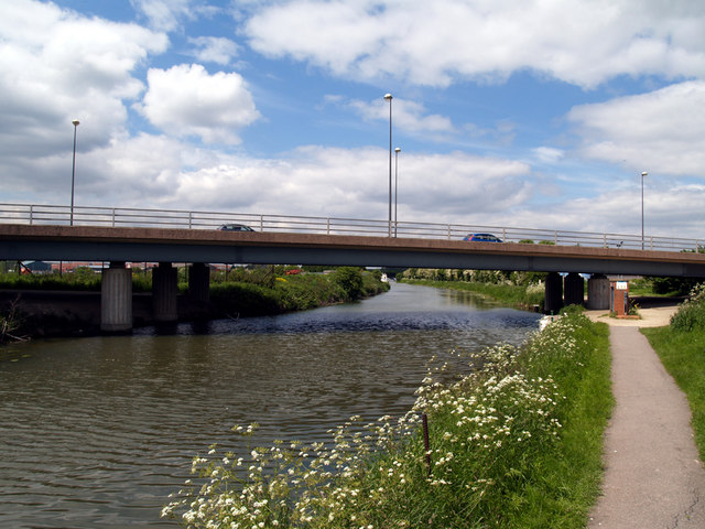 A18 Bridge over New River Ancholme. This bridge carries the A18 over the New River Ancholme replacing the old town bridge, Brigg, North Lincolnshire, Great Britain 178020.